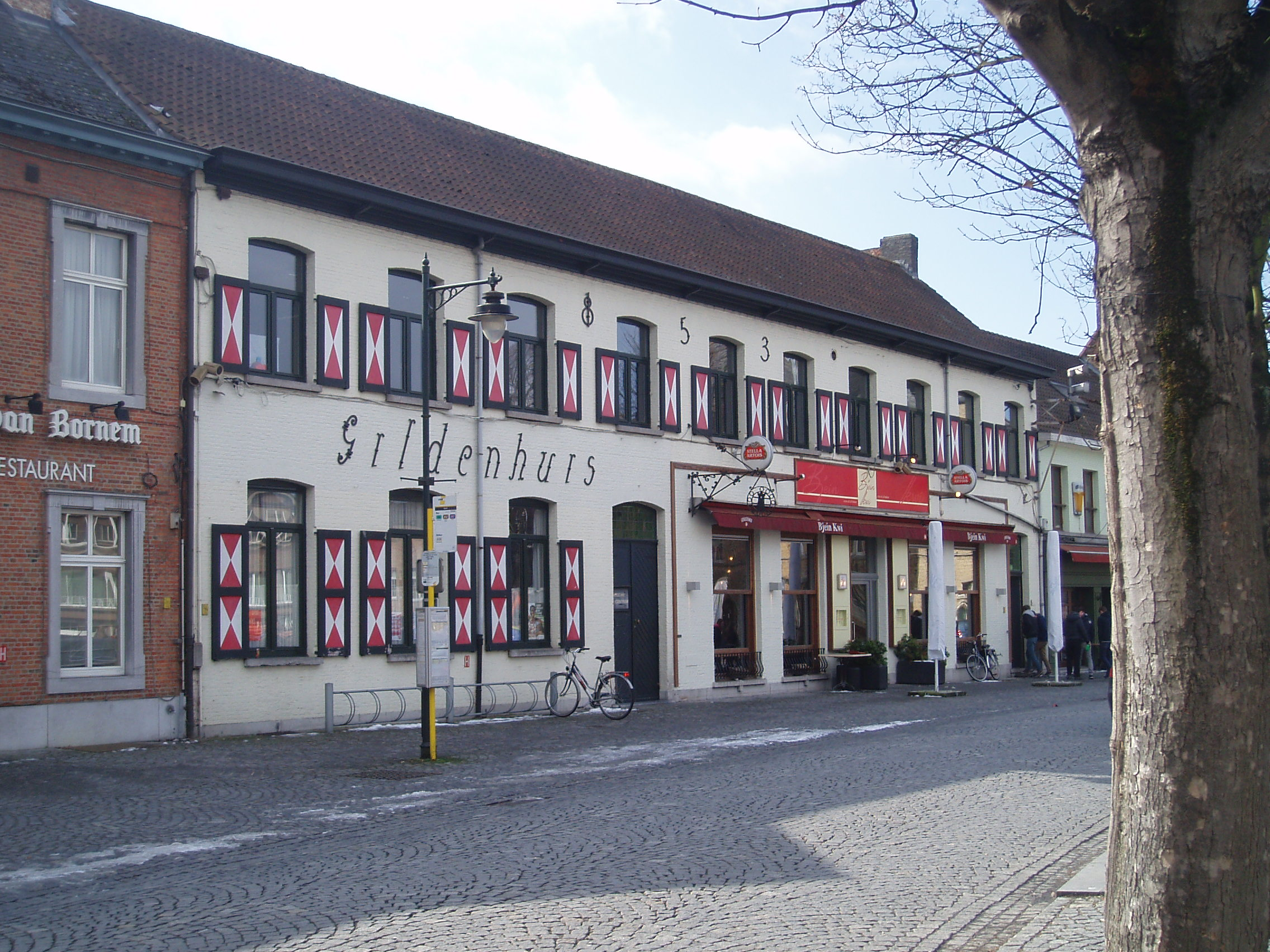 Bornem Gildenhuis